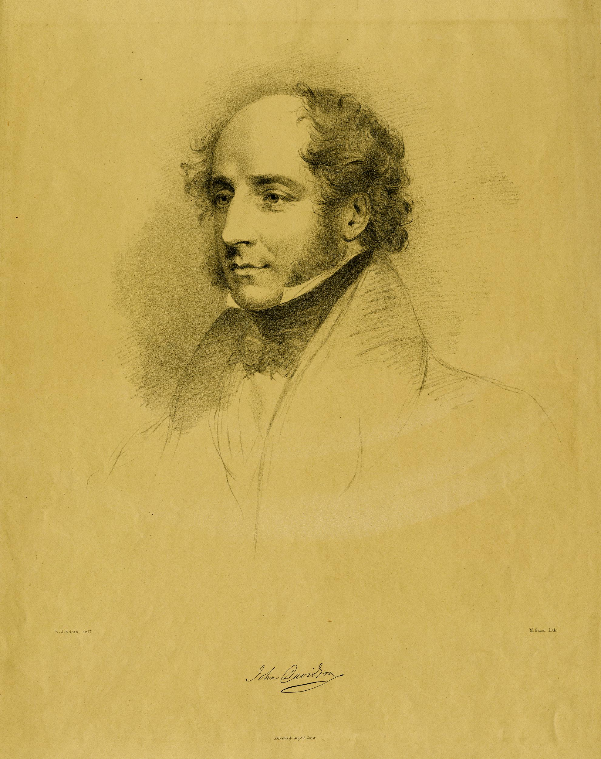 Portrait of the physician and traveller John Davidson; bust, to the left, his hair receding with long sideburns; after Eddis. Lithograph